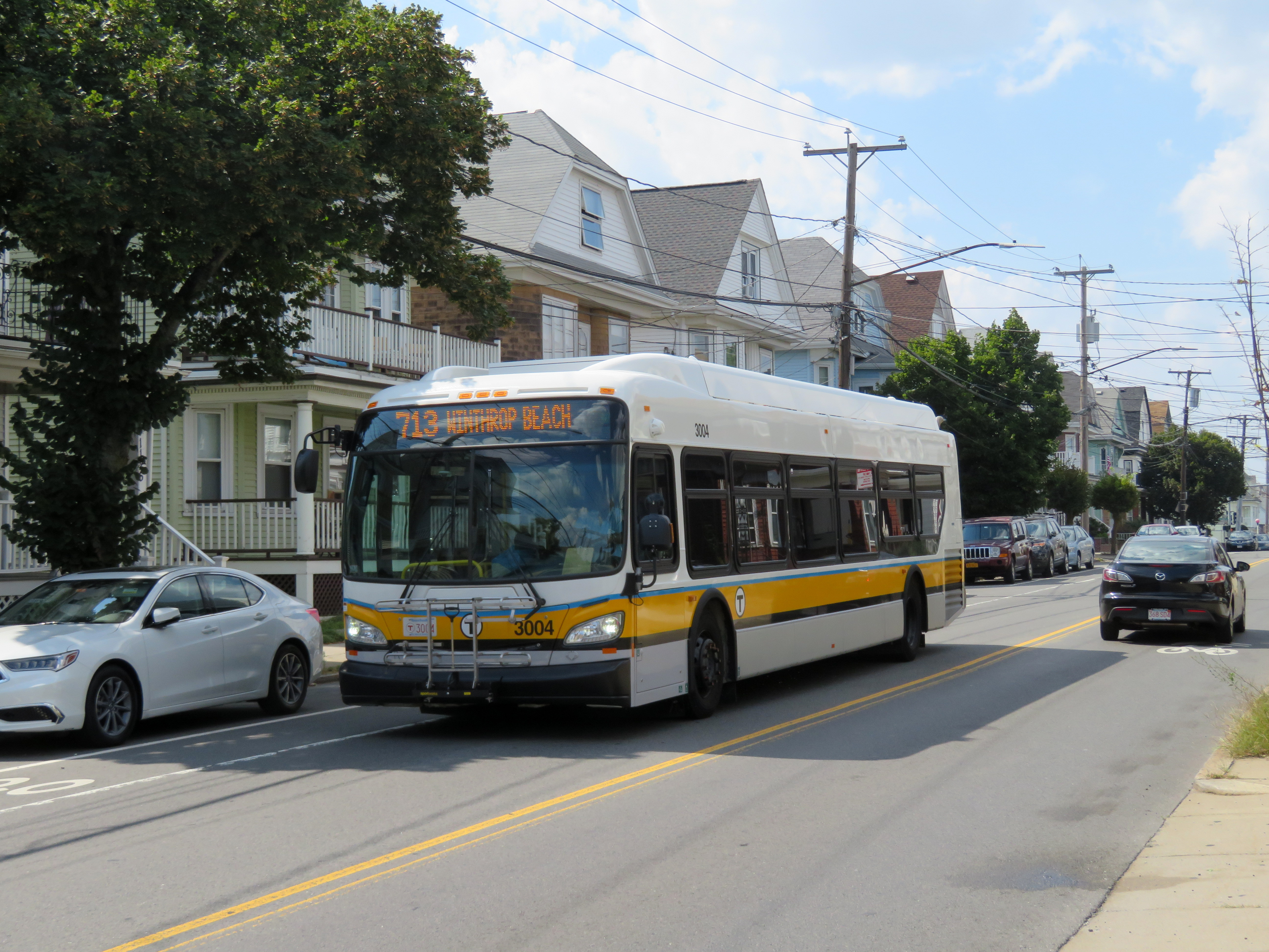 MBTA route 713 bus, operated by Paul Revere Transportation, on Saratoga Street in East Boston in August 2018